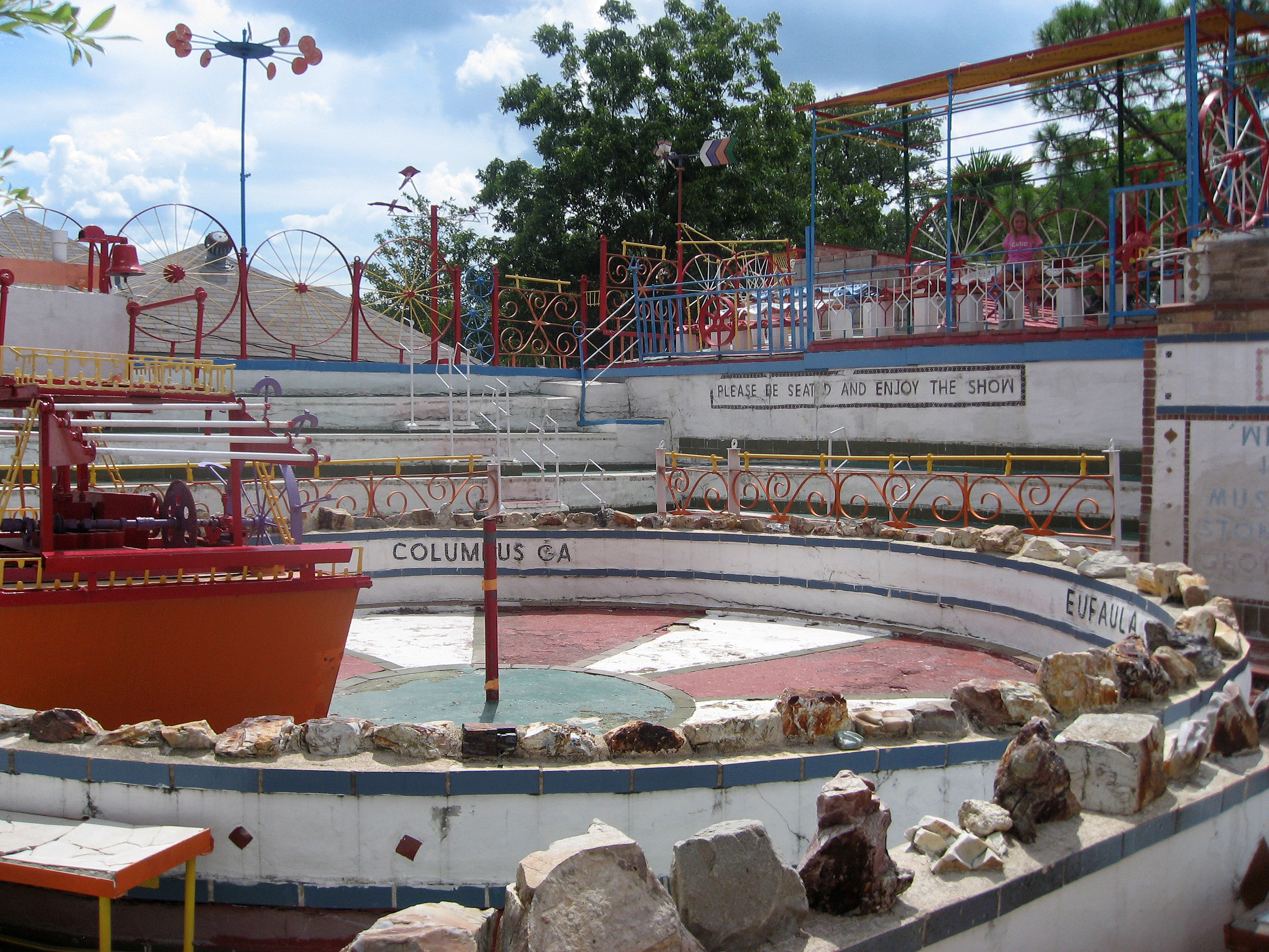 Jeff McKissack, an eccentric Houston postman, worked alone for 25 years from 1956 until his death to create this oddity.